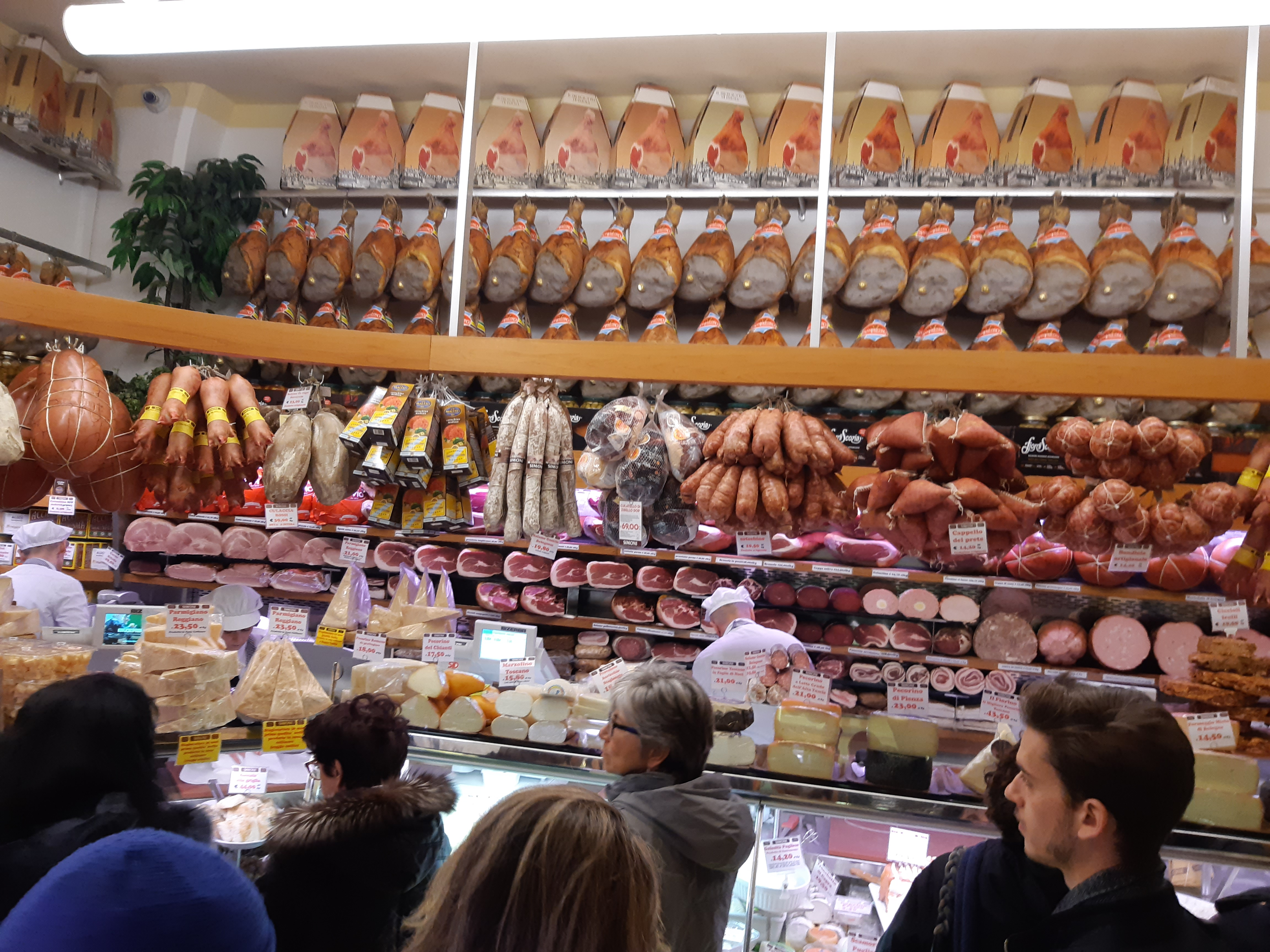 Hams, pig trotters, sausages, and mortadella hanging in rows in a Bologna pork butcher's shop